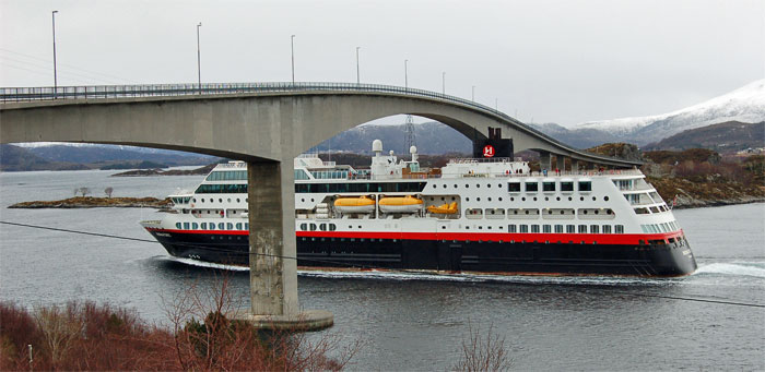 The ship "Midnatsol" under the Herøy-Bridge